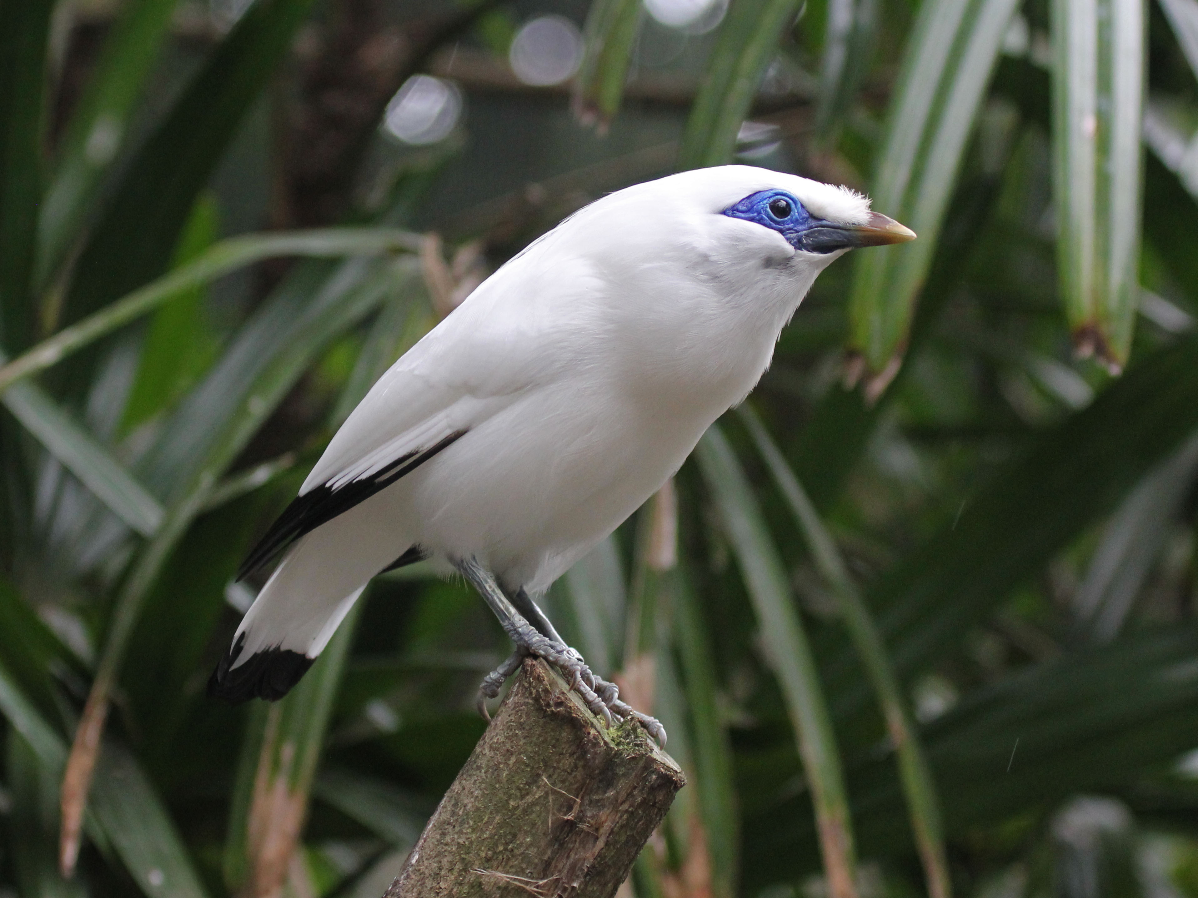 Bali Starling, also Bali Myna (Leucopsar rothschildi) - Leucopsar rothschildi